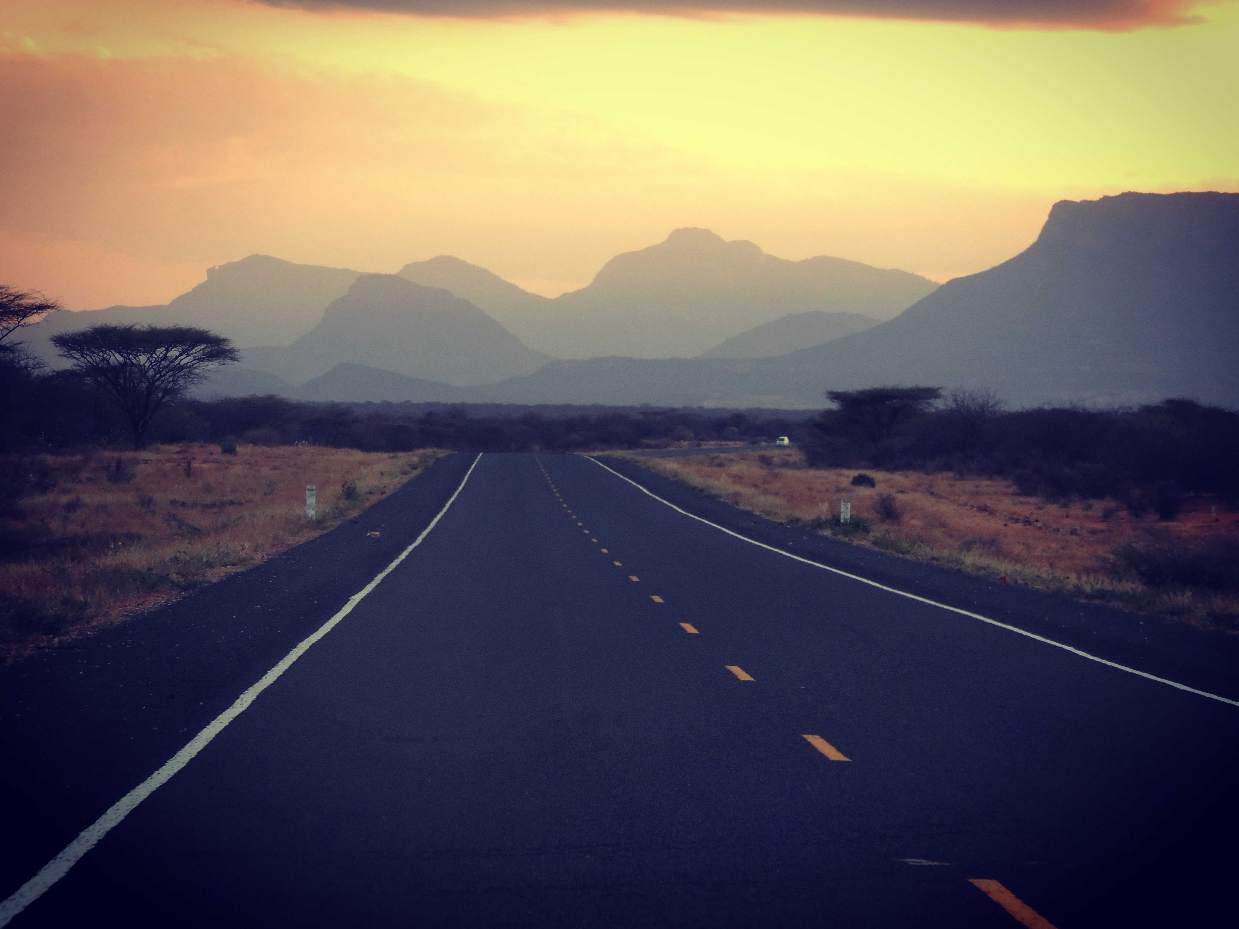 the scenic Isiolo- marsabit highway in kenya with its beautiful desert hills, acacia and dust storms. This is an image of music and dance from Kenya